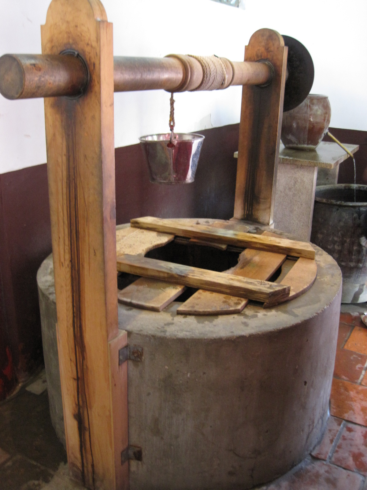 A old well in Koxinga's Shrine, Tainan, Taiwan.